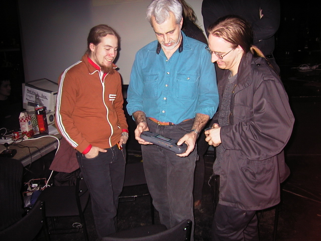 R. J. Mical at Alternative Party 3